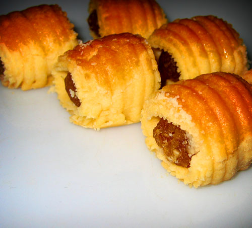 5 pineapple tarts. Pineapple tarts come in different shapes, these ones are rolls open at the ends and filled with jam.